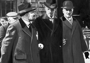 Lenin, Ture Nerman and Carl Lindhagen in Stockholm April 1917. This picture was taken by an unknown photographer outside the Central Station in Stockholm. The picture was published in many Swedish newspapers the following days, including Ture Nerman’s “Politiken”, the Social Democratic Left Party’s daily.